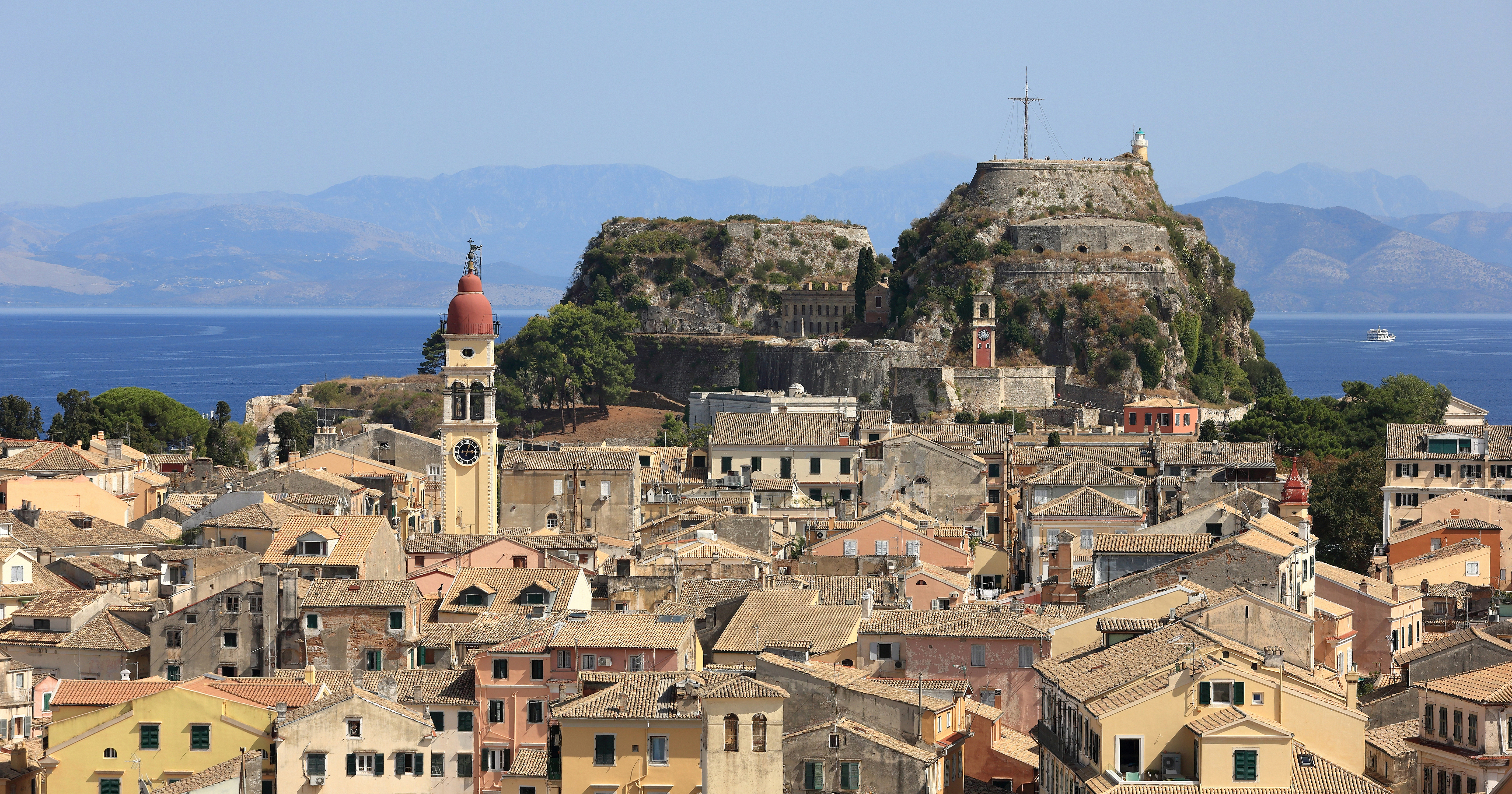 The Old Fortress and the Old Town of Corfu - part of UNESCO World Heritage Site Ref. Number 978.